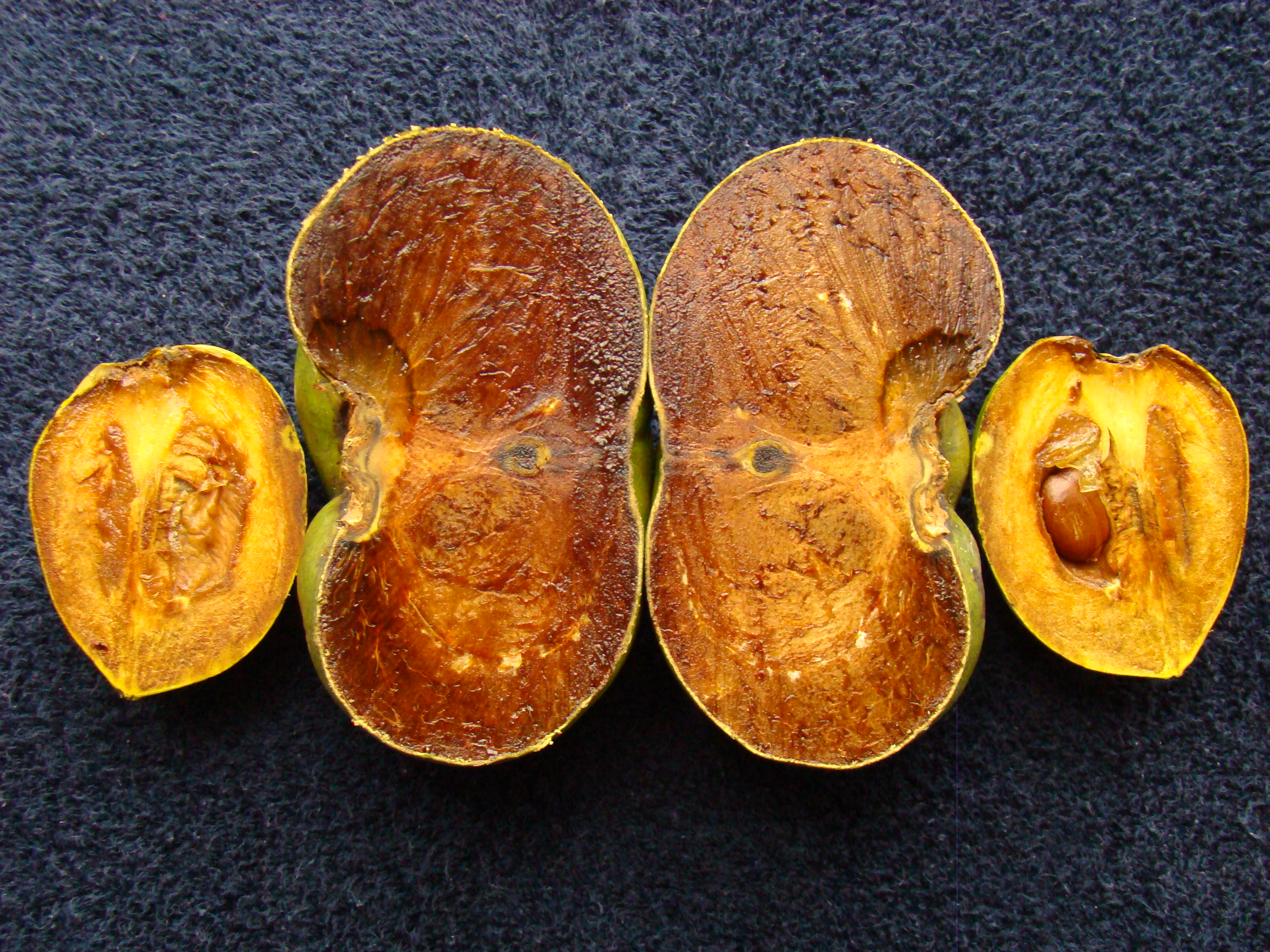 The vertically cut halves of a ripe, jumbo and seedless Black Sapote (Diospyros digyna / Ebenaceae) from a seedling tree in Palm Bay, Florida, is compared with the same of a oval shaped common Black Sapote.